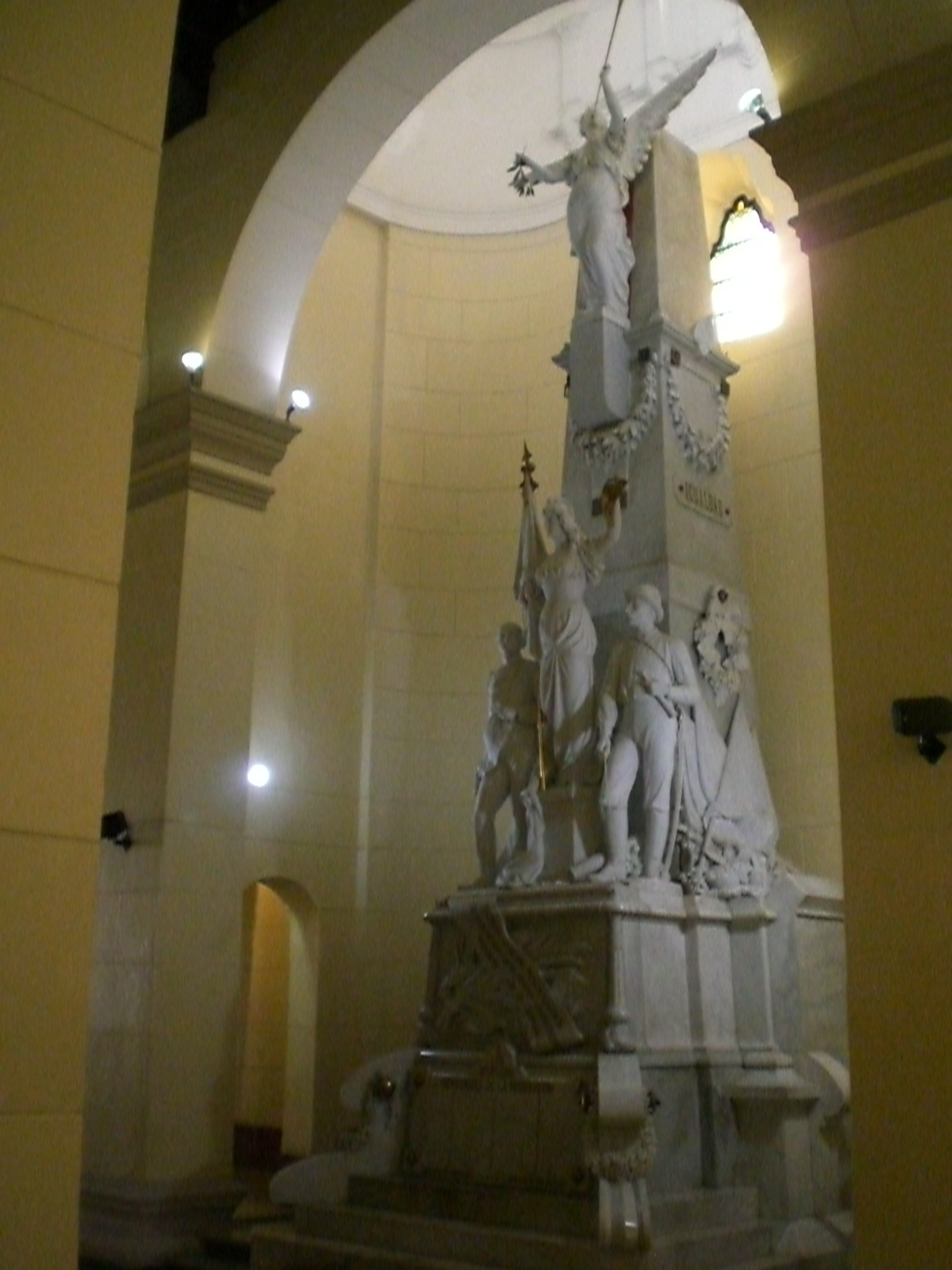 Federation Monument at the National Pantheon.